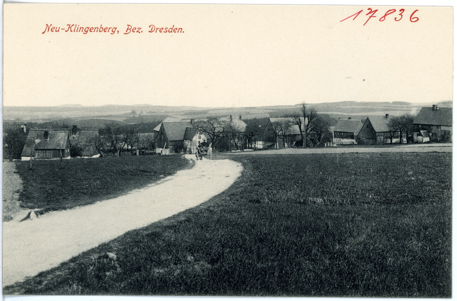 This postcard is from publisher Brück & Sohn in Meißen ( This postcard has a unique number 17836 and is available in a higher resolution at the publisher. This images was uploaded in a cooperation project between Wikipedians and the publisher.